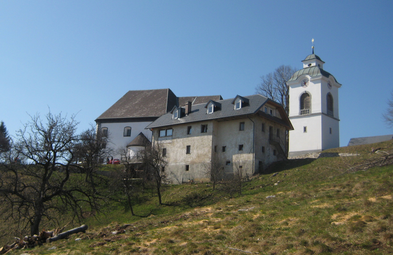 Limbarska gora, mountain in Slovenia (church of St. Valentin)